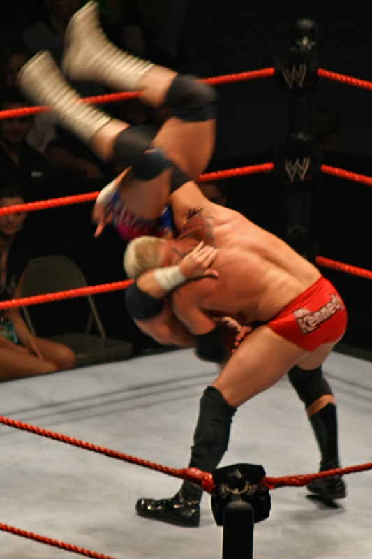 Mr. Kennedy (Ken Anderson) delivers a bodyslam to Hardcore Holly. Taken during the WWE Raw - Survivor Series Tour, at Rod Laver Arena, Melbourne Park, Melbourne, Australia. Kennedy wrestled Bob 'Hardcore' Holly; the match was won by Kennedy pinning Holly with a roll-up.